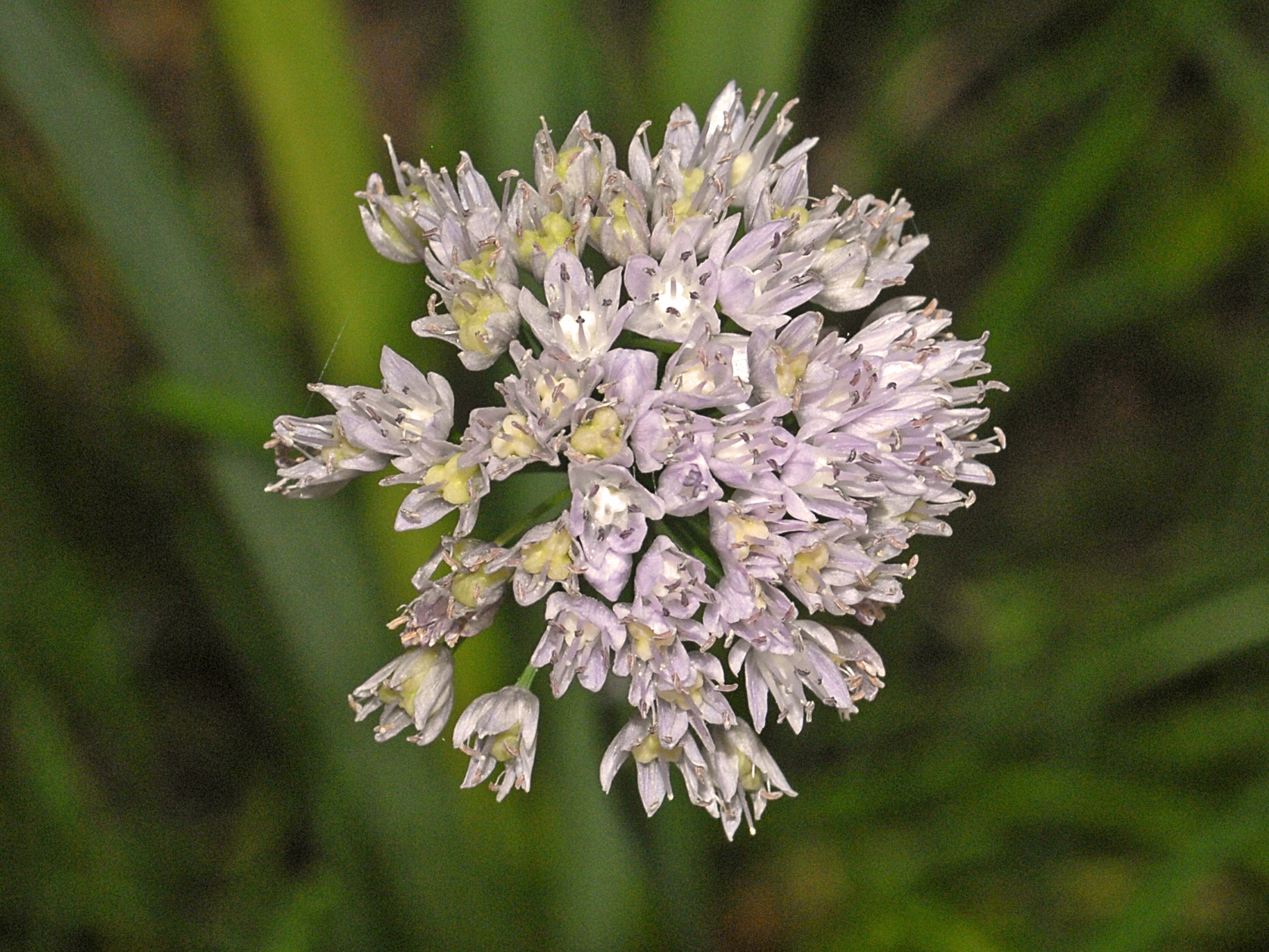 Flower of Allium strictum